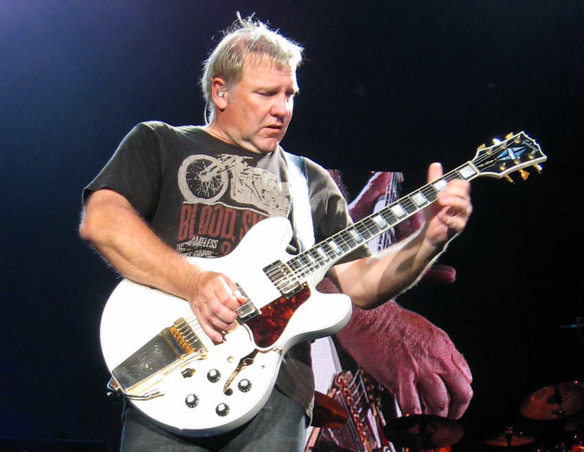 Alex Lifeson Gibson ES-355TD-SV (T: Thinline, D: Dual-pickups, S: optional Stereo wiring, V: optional Varitone) Vibrola (or Bigsby vibrato tailpiece) may be default ?